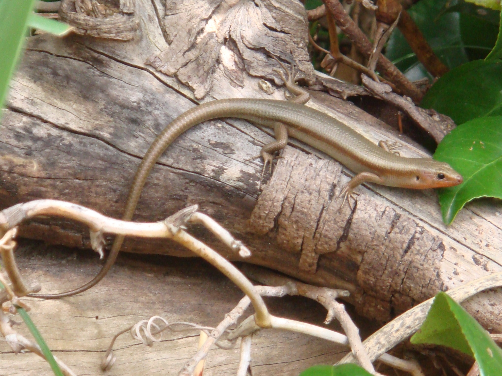 Okada's five-lined skink, taken by myself in Shikinejima, Tokyo.